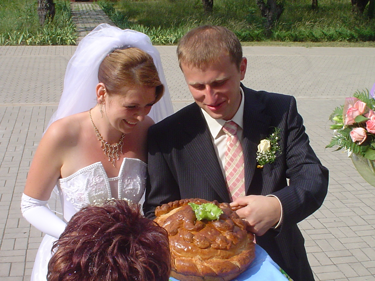 not sure why they do it...it was a tradition, i was told...